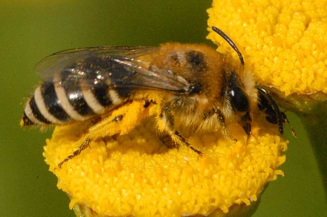 Colletes daviesanus from Commanster, Belgian High Ardennes .